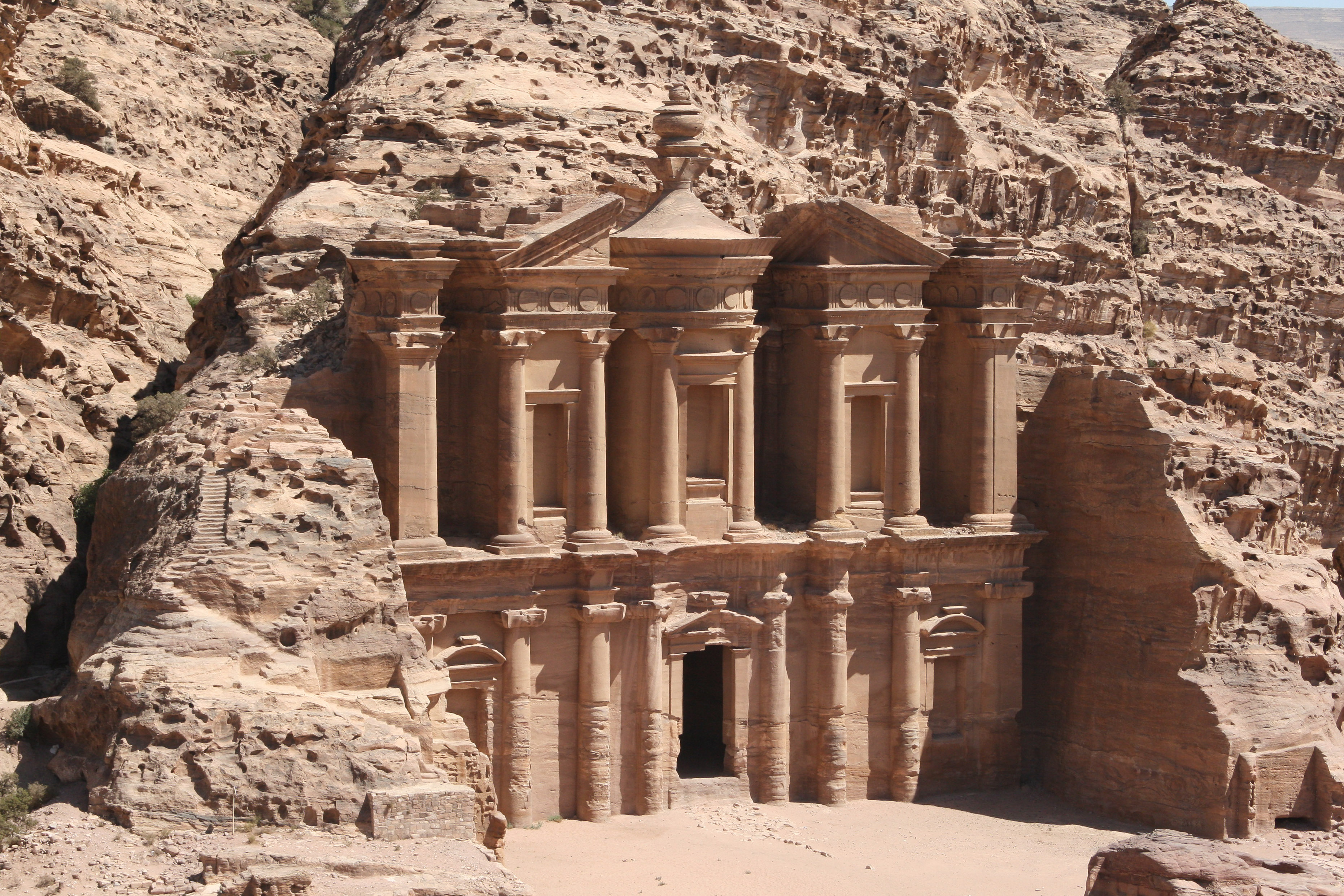 The Monastery, Petra, Jordan